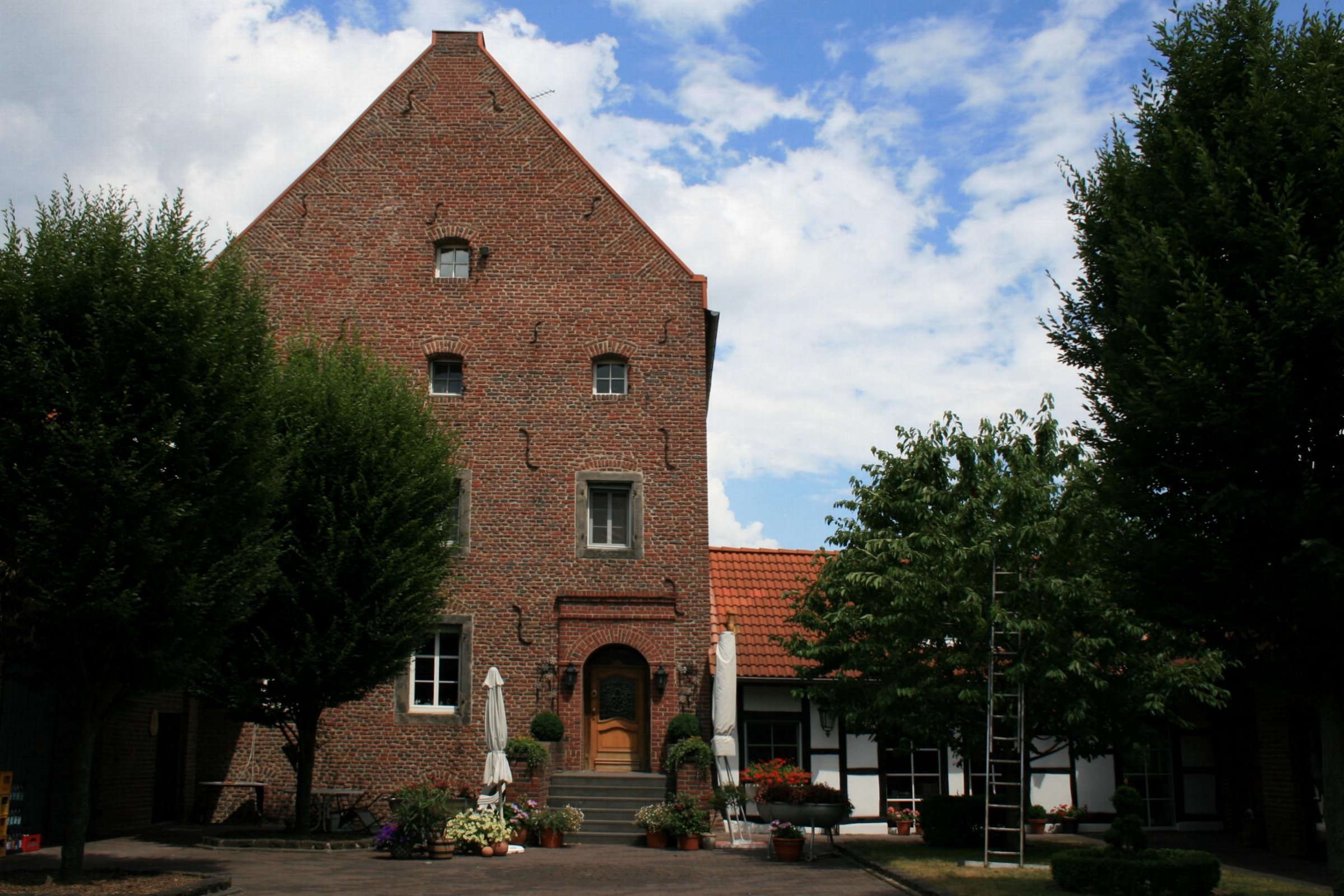 Cultural heritage monument No. St 027 in Mönchengladbach